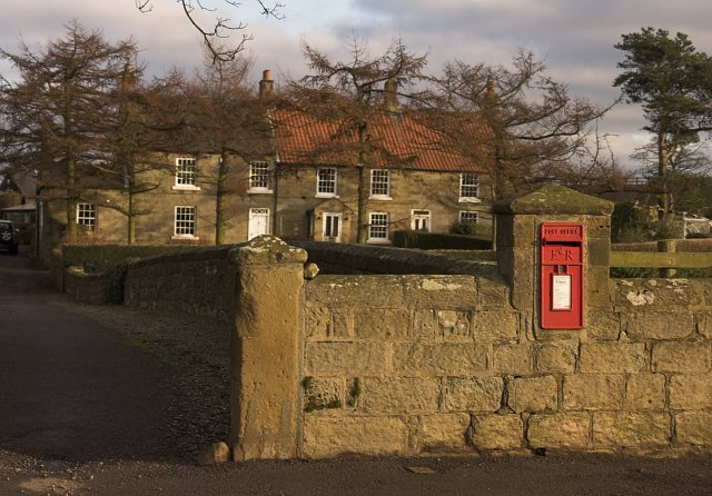 Post box - Liverton. Post box on the Northern edge of Liverton village